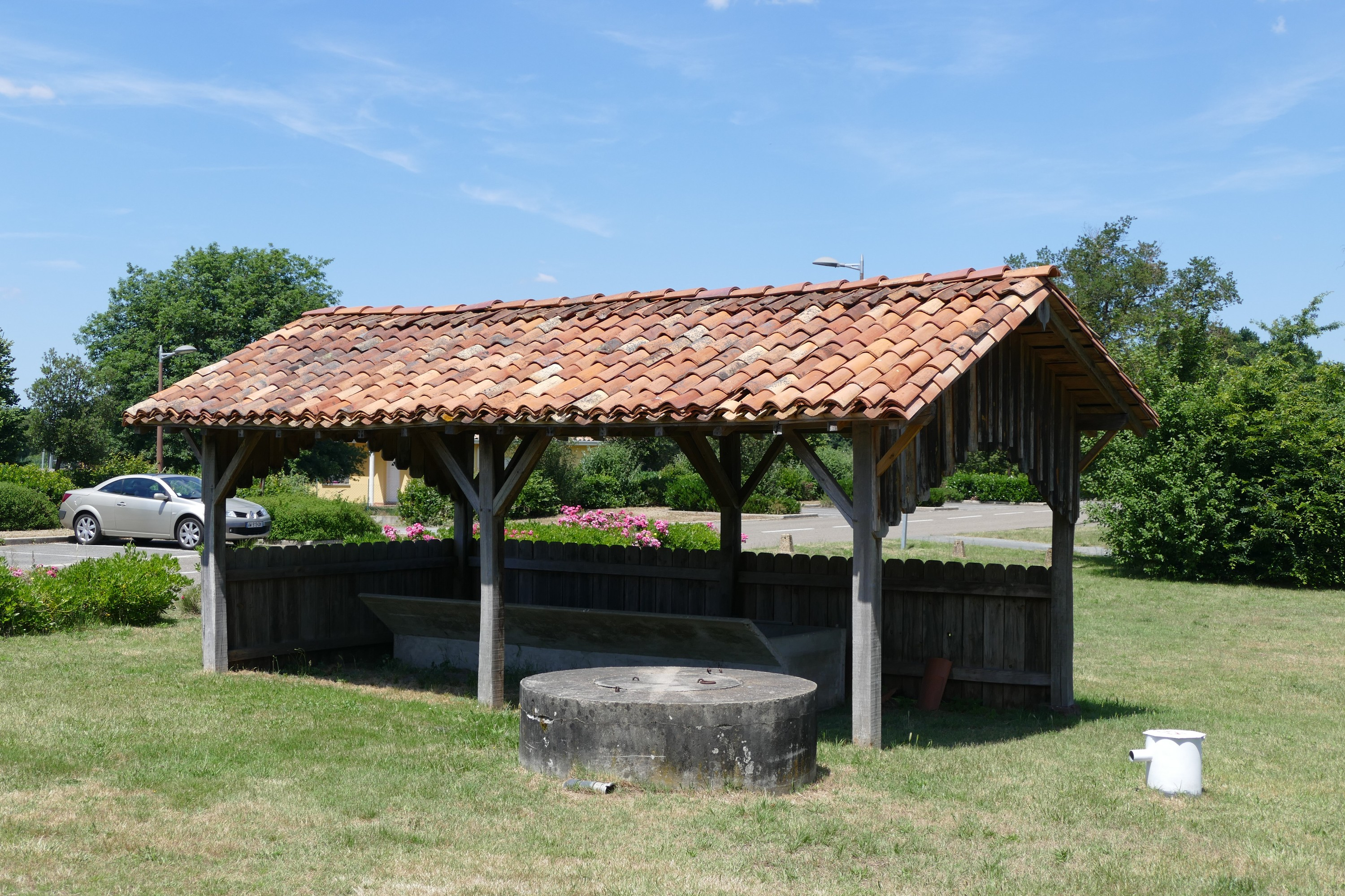 Lavoir in Liposthey (Landes, Nouvelle-Aquitaine, France).